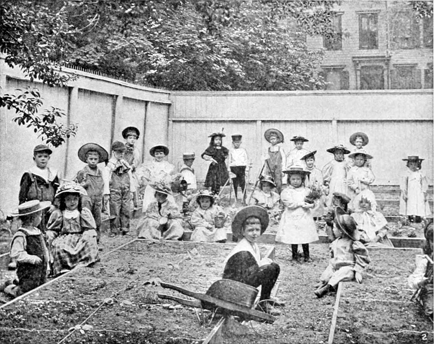 Children of Pratt Institute Kindergarten, Brooklyn, New York, gardening